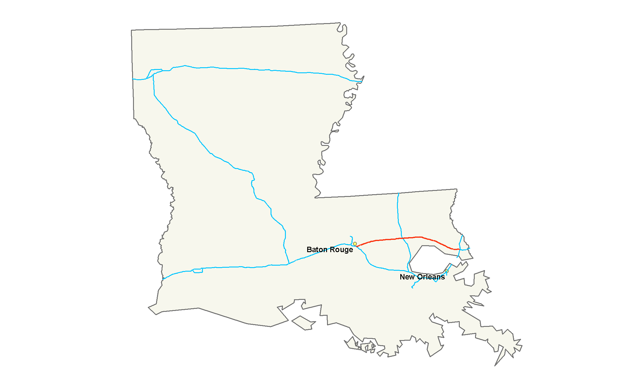 Map of Interstate 12